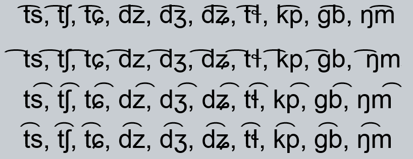 Demonstration of the Arial Unicode MS double-width diacritic rendering bug. The first row depicts the incorrect character sequence ts͡, tʃ͡, tɕ͡, dz͡, dʒ͡, dʑ͡, tɬ͡, kp͡, ɡb͡, ŋm͡, rendered in Arial Unicode MS 1.01. The second row depicts the same sequence t͡s, t͡ʃ, t͡ɕ, d͡z, d͡ʒ, d͡ʑ, t͡ɬ, k͡p, ɡ͡b, ŋ͡m, rendered in the correct font. The next row depicts the same sequence rendered in Arial 6.81, a font which does not have the bug.